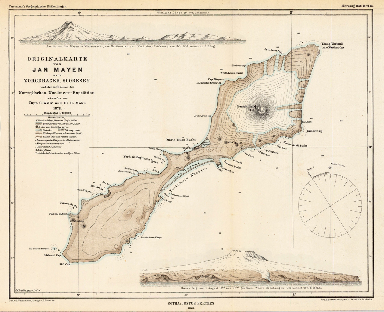 map of Jan Mayen Island, territory of Norway in the North Atlantic Ocean, in Petermann's Geographische Mitteilungen